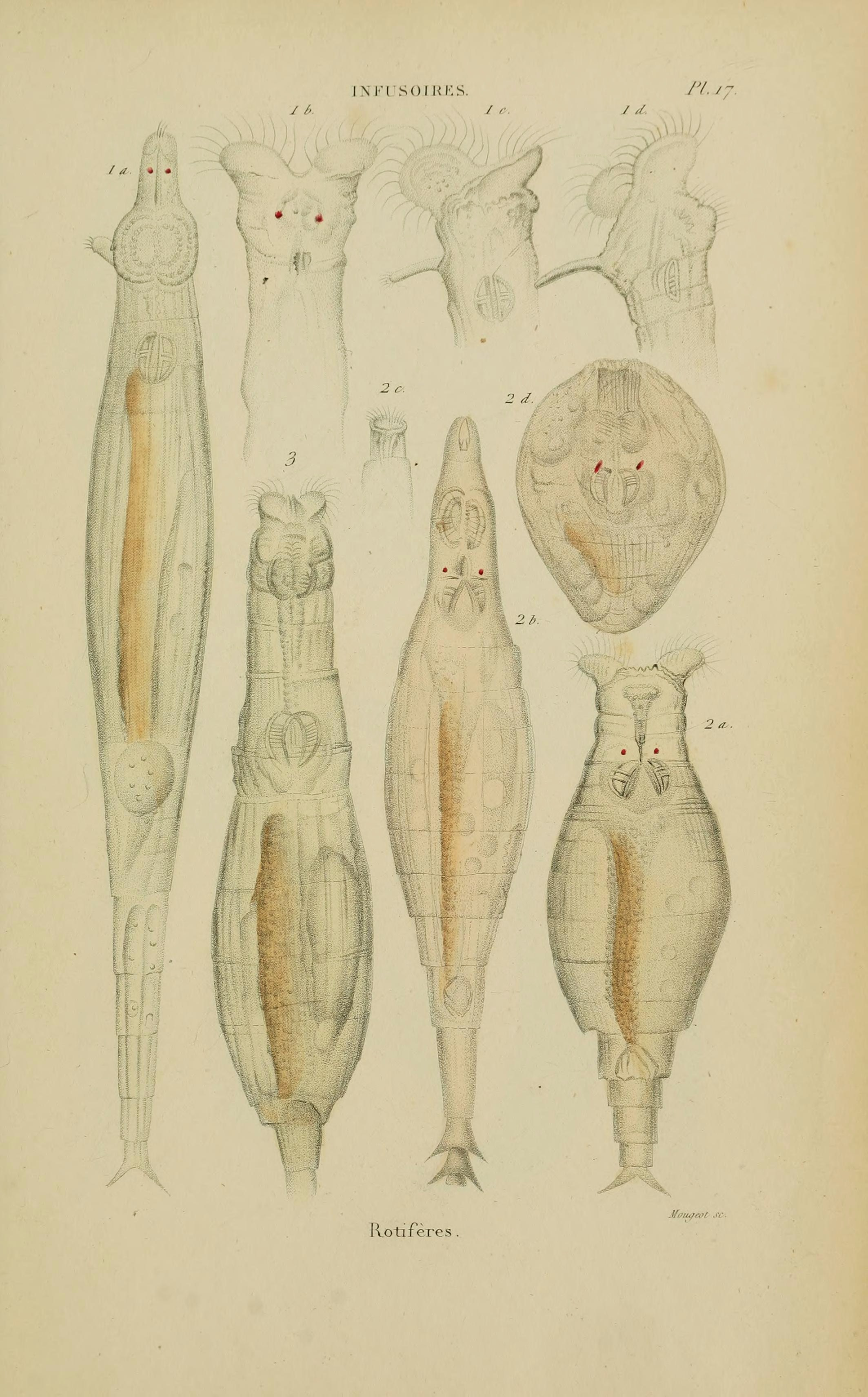 As file